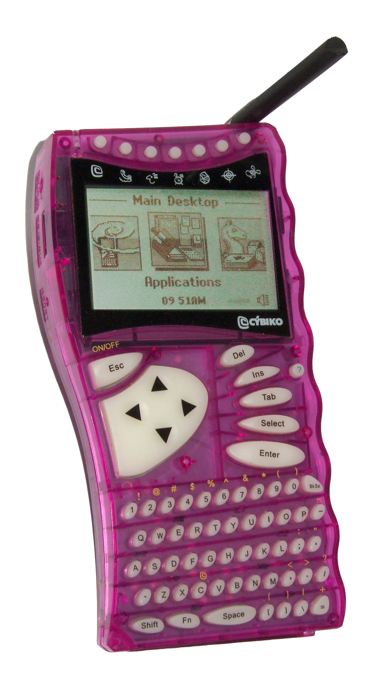 Handheld-Computer Cybiko, 1st generation